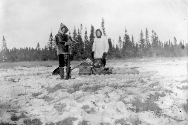 Geological Survey of Canada explorers Albert Peter Low and David Eaton take a rest at Northwest River, Labrador, during their 1893-1894 survey of northern Quebec and Labrador.